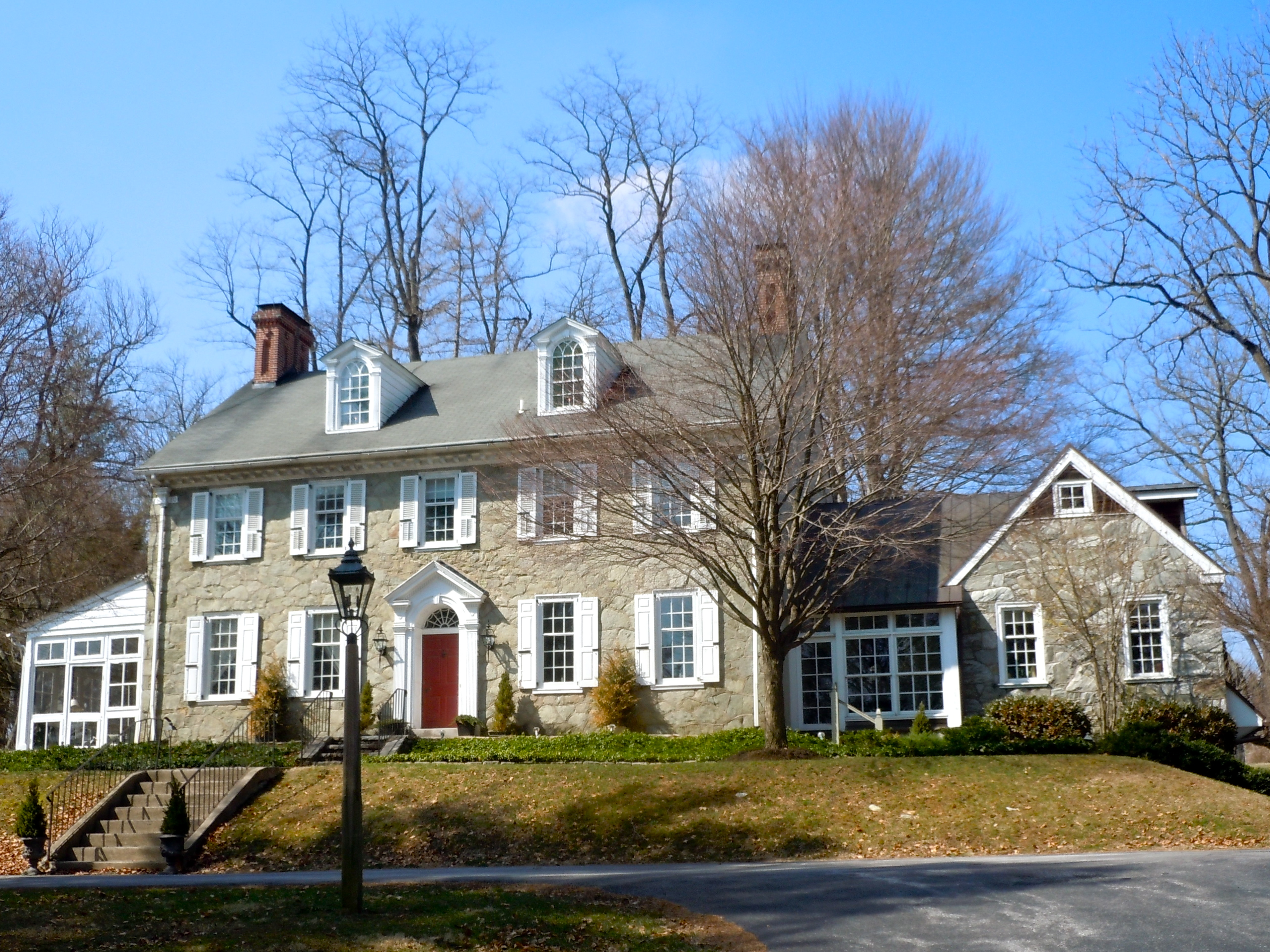 East Bradford Boarding School for Boys on the NRHP since March 7, 1973. Located 1 mile (1.6 km) east of Lenape at West Chester and Sconnelltown (Birmingham) Roads, in East Bradford Township, Chester County, Pennsylvania. Diagonally across the street from another NRHP site Strodes Mill, and likely part of Strode's Mill Historic District. Now used as a residence.